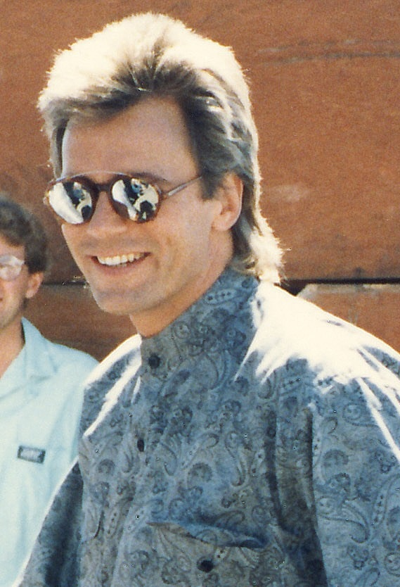 Richard Dean Anderson on the set of "MacGyver" in British Columbia, Canada, circa 1985